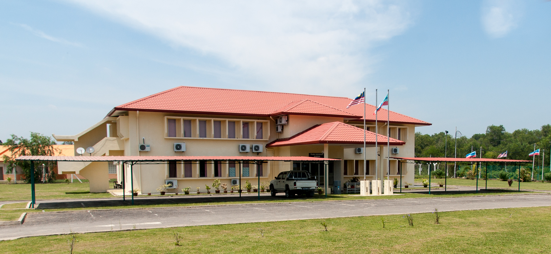 Pejabat Daerah Kecil Menumbok (Local Government Building of Menumbok, Sabah)